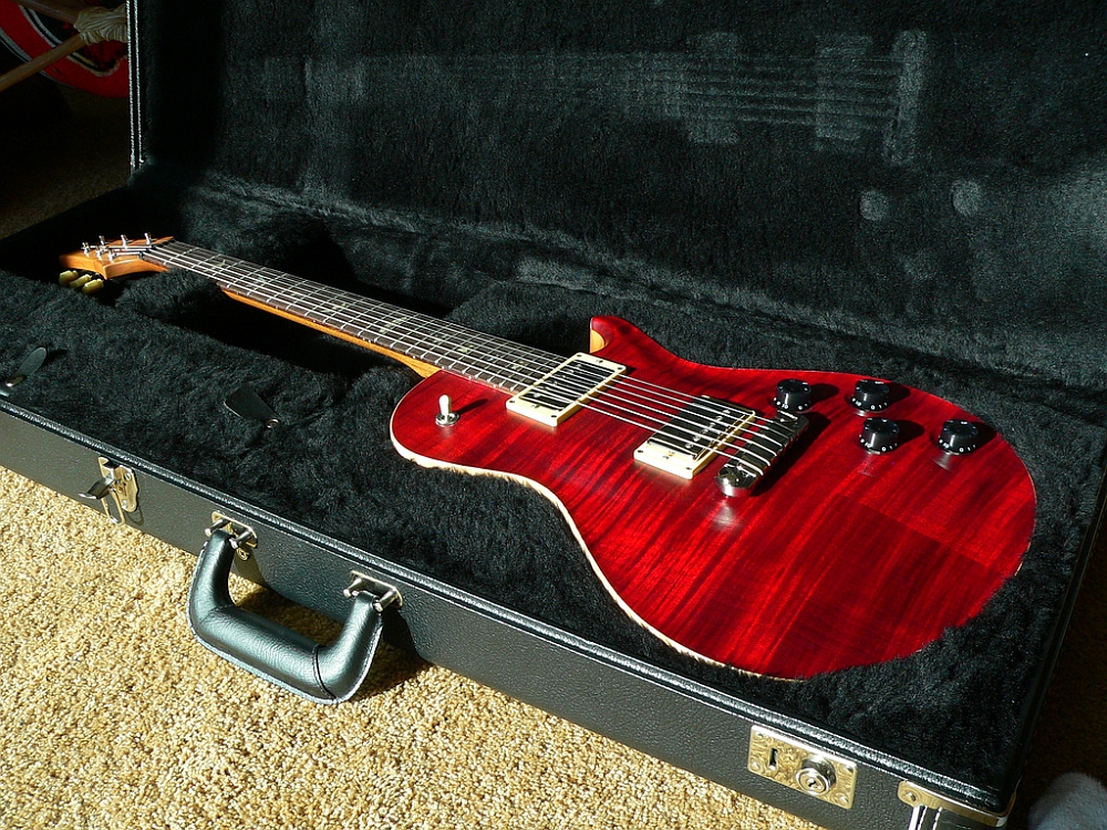 PRS guitar in case